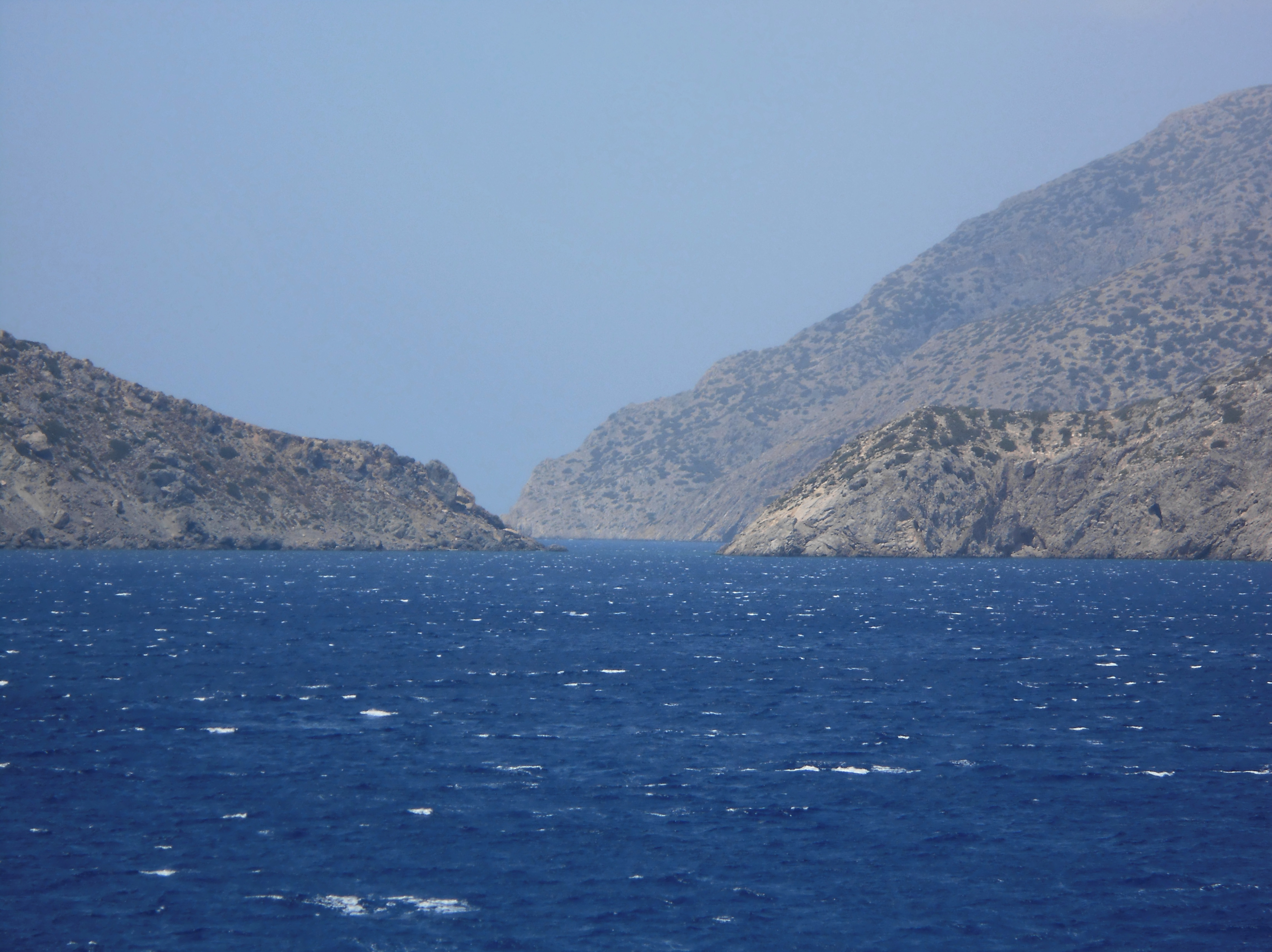 The Saria Strait, Dodecanese, Greece. Saria Island on the right and Karpathos Island on the left. This is a photography of Natura 2000 protected area with ID GR4210003